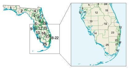 Image adapted from US fed gov't source Category:Congressional districts of Florida